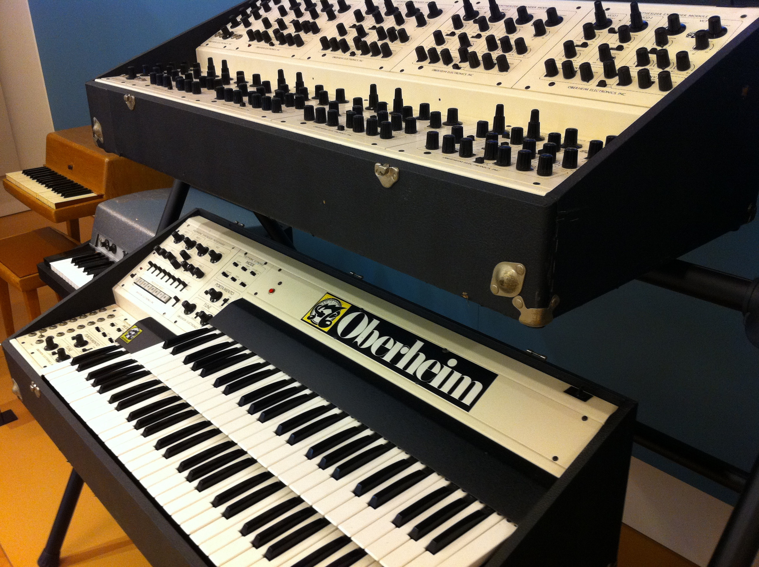 Oberheim factory custom dual manual 8 Voice Synthesizer exhibited at Musical Instrument Museum (Phoenix) (MIM), 1 of only 6 made (also Patrick Moraz once owned other one)